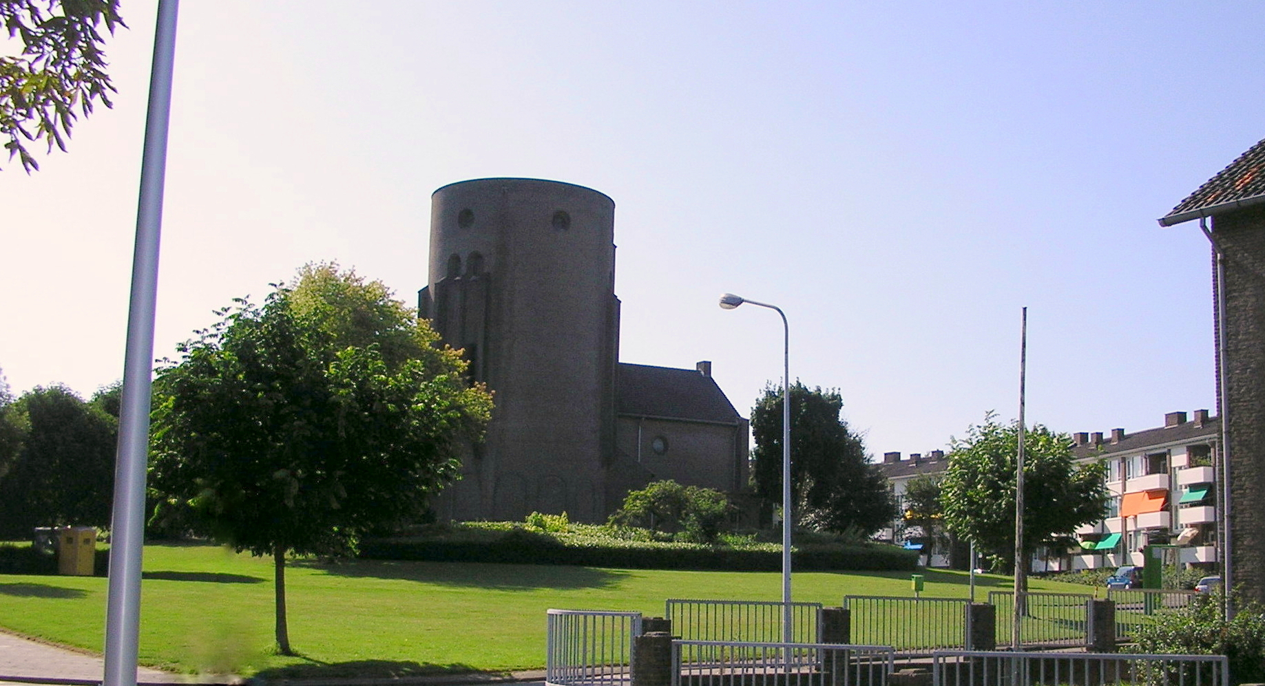 Mariaberg Church, Maastricht, the Netherlands